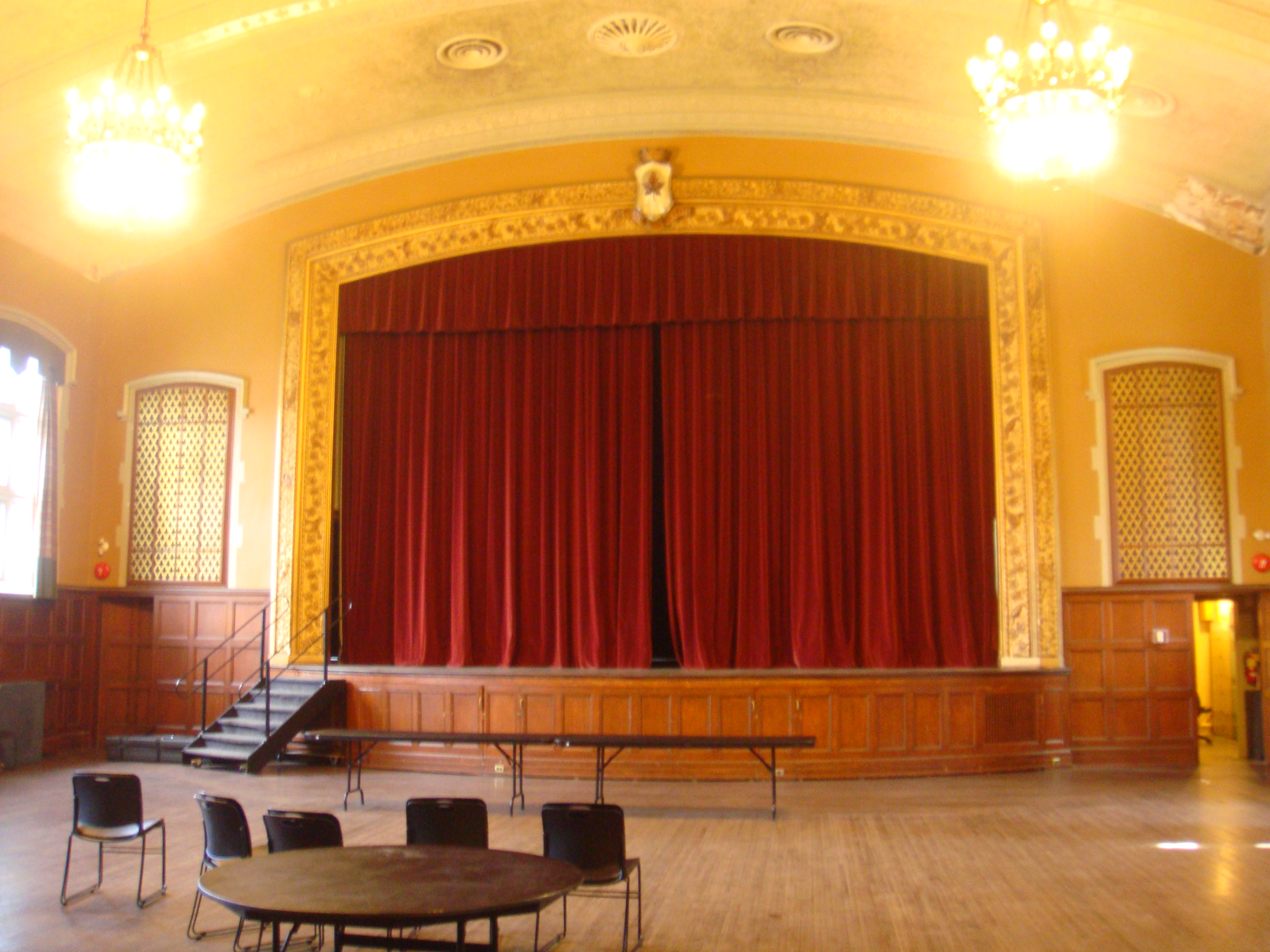 Victoria Hall and greenhouse in May 2015